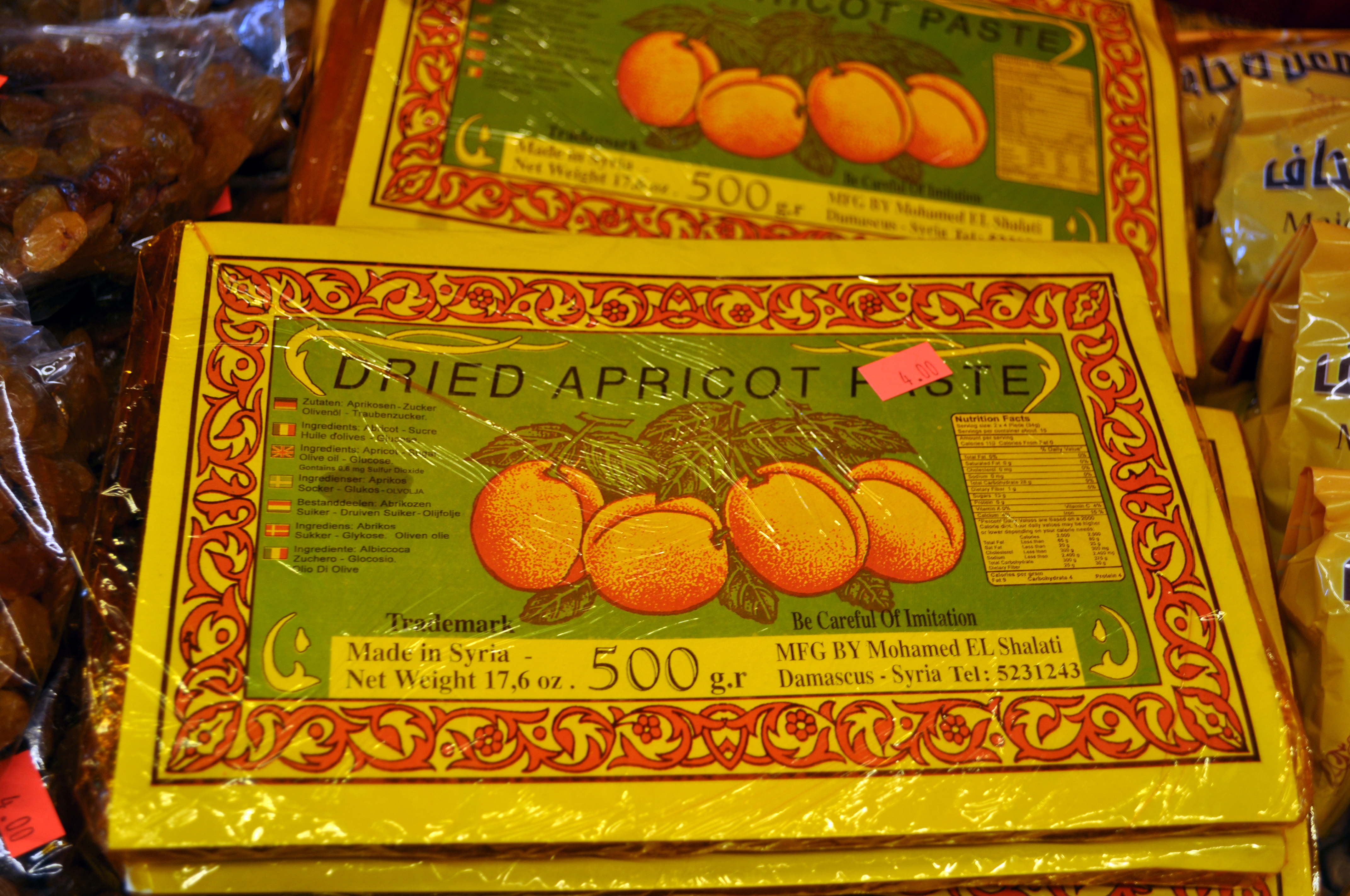 Packaged apricot paste from Syria.